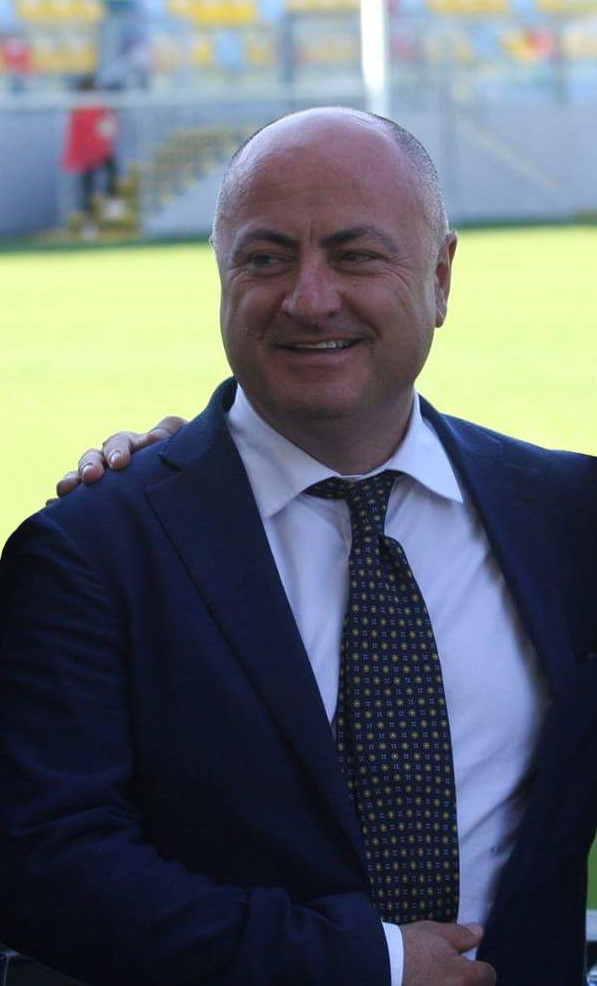 Nicola Ottaviani, Mayor of Frosinone at the Benito Stirpe Stadium - 27/9/2017